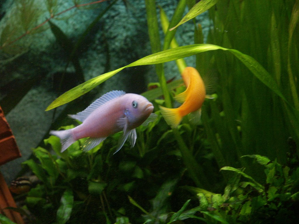 Maylandia estherae